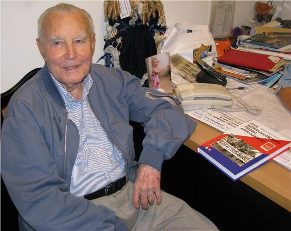 Władysław Zachariasiewicz (Walter Zachariasiewicz, born November 7, 1911 in Cracow, Poland), Polish military officer and soldier of World War II, veteran. Activist of Polish diaspora in USA.